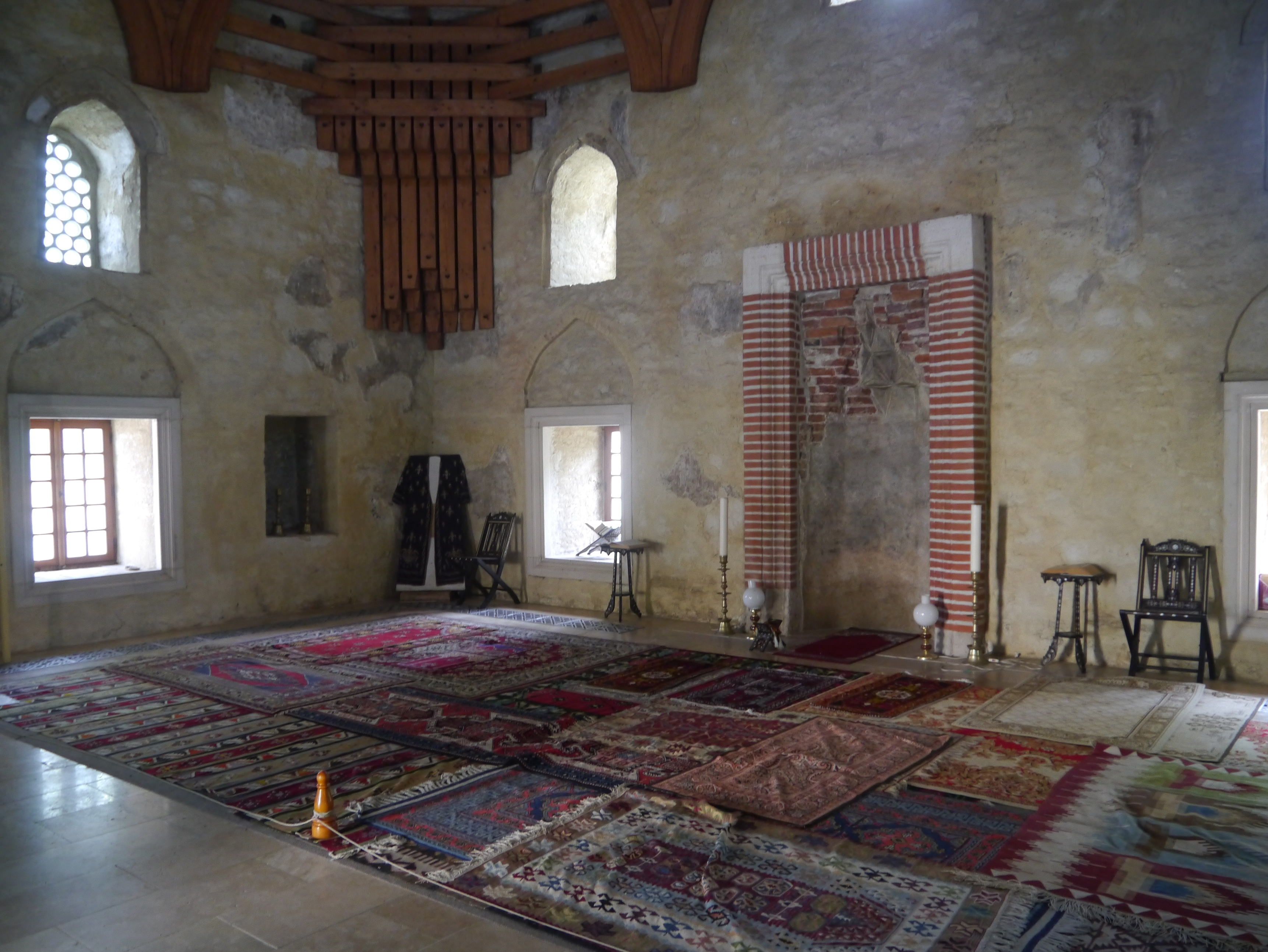 Prayer hall of the Mosque, Siklós, Southern Hungary